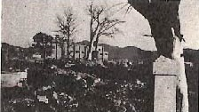 This is a scene after the Bombing of Ujiyamada. This was taken at Shinmichi street in Ozeko, Ise, Mie, Japan.